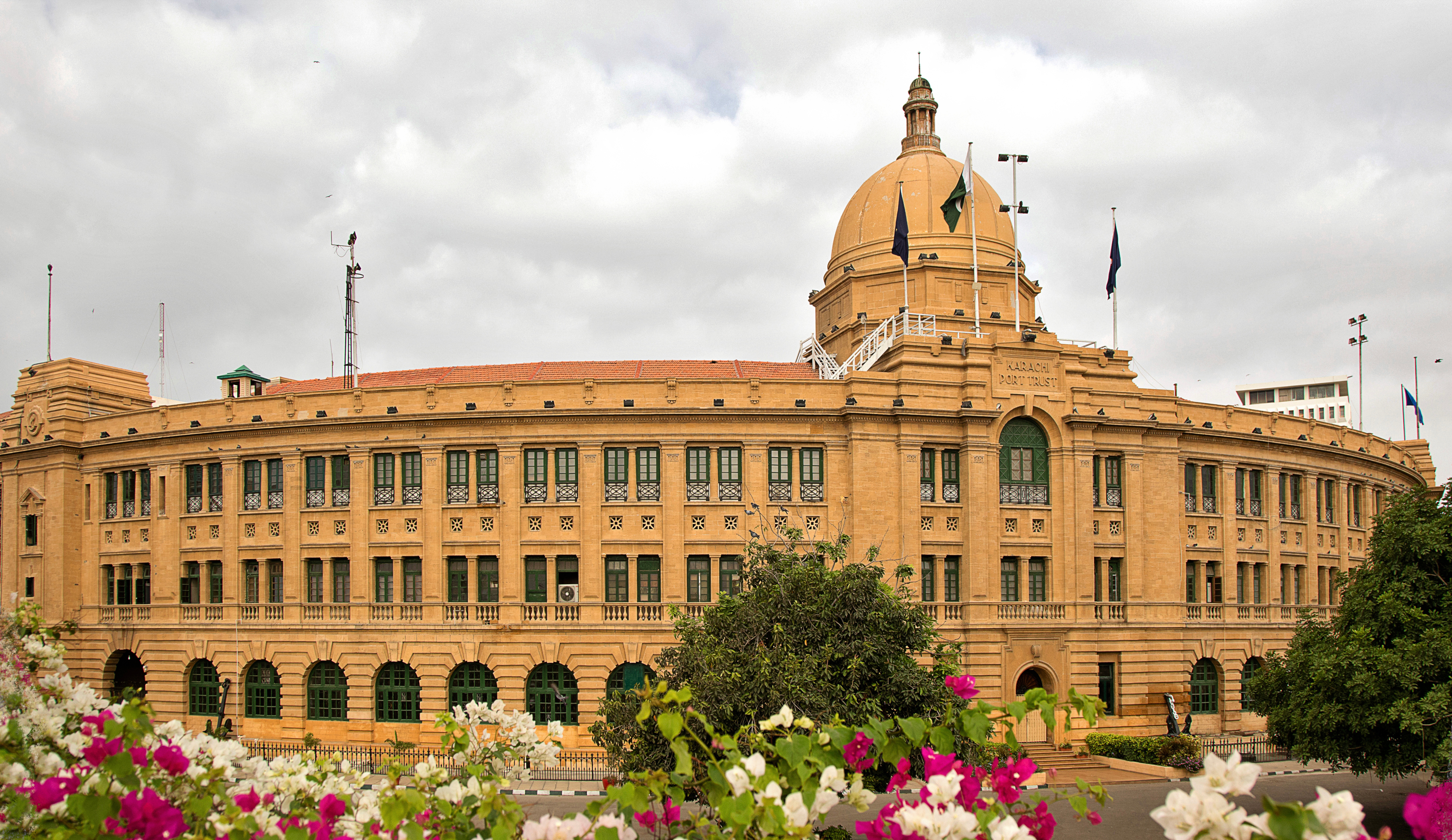 Karachi Port Trust (KPT) Head Office Building This is a photo of a monument in Pakistan identified as the SD-P-29